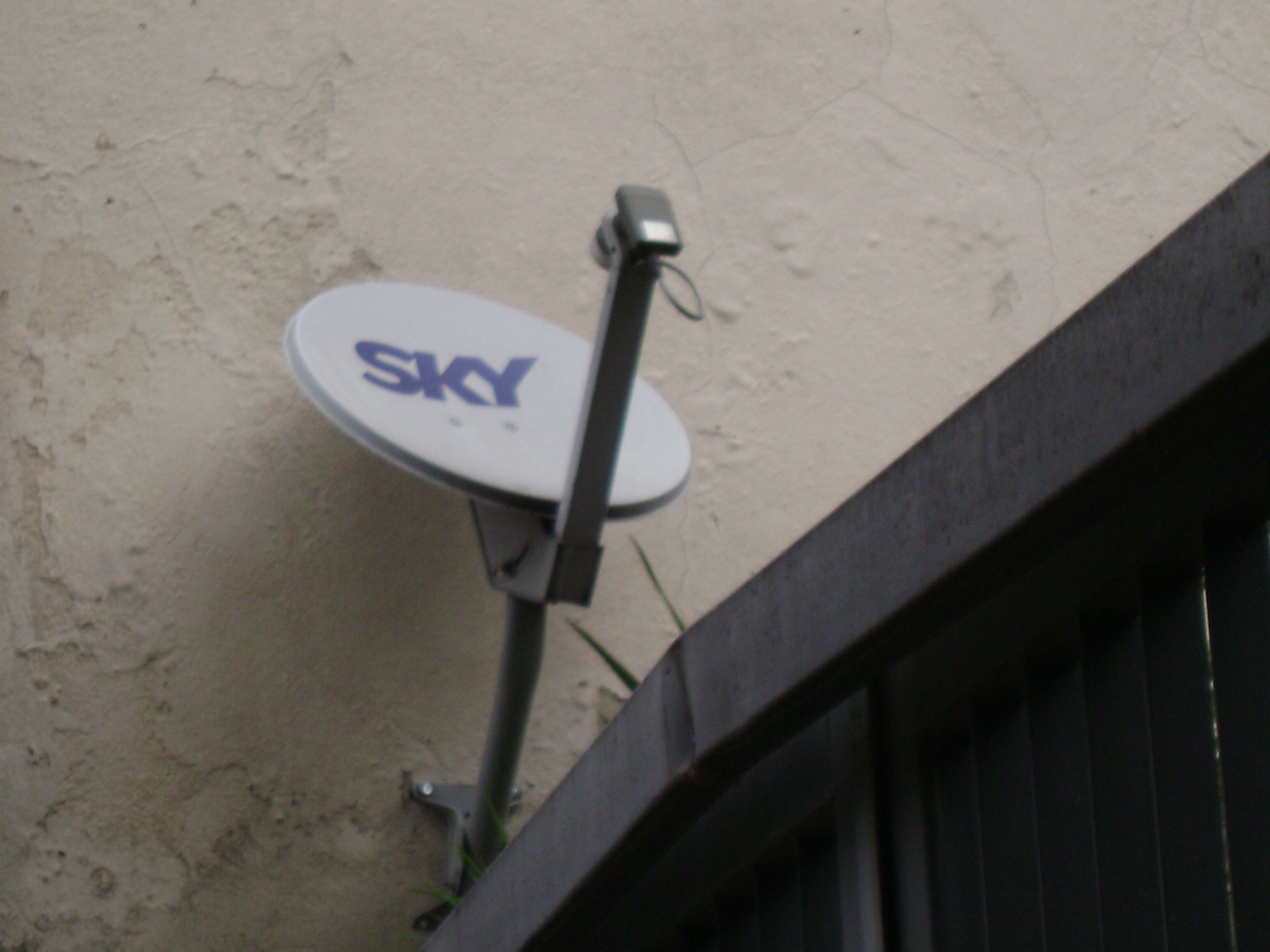 Antena da Sky em Belo Horizonte.